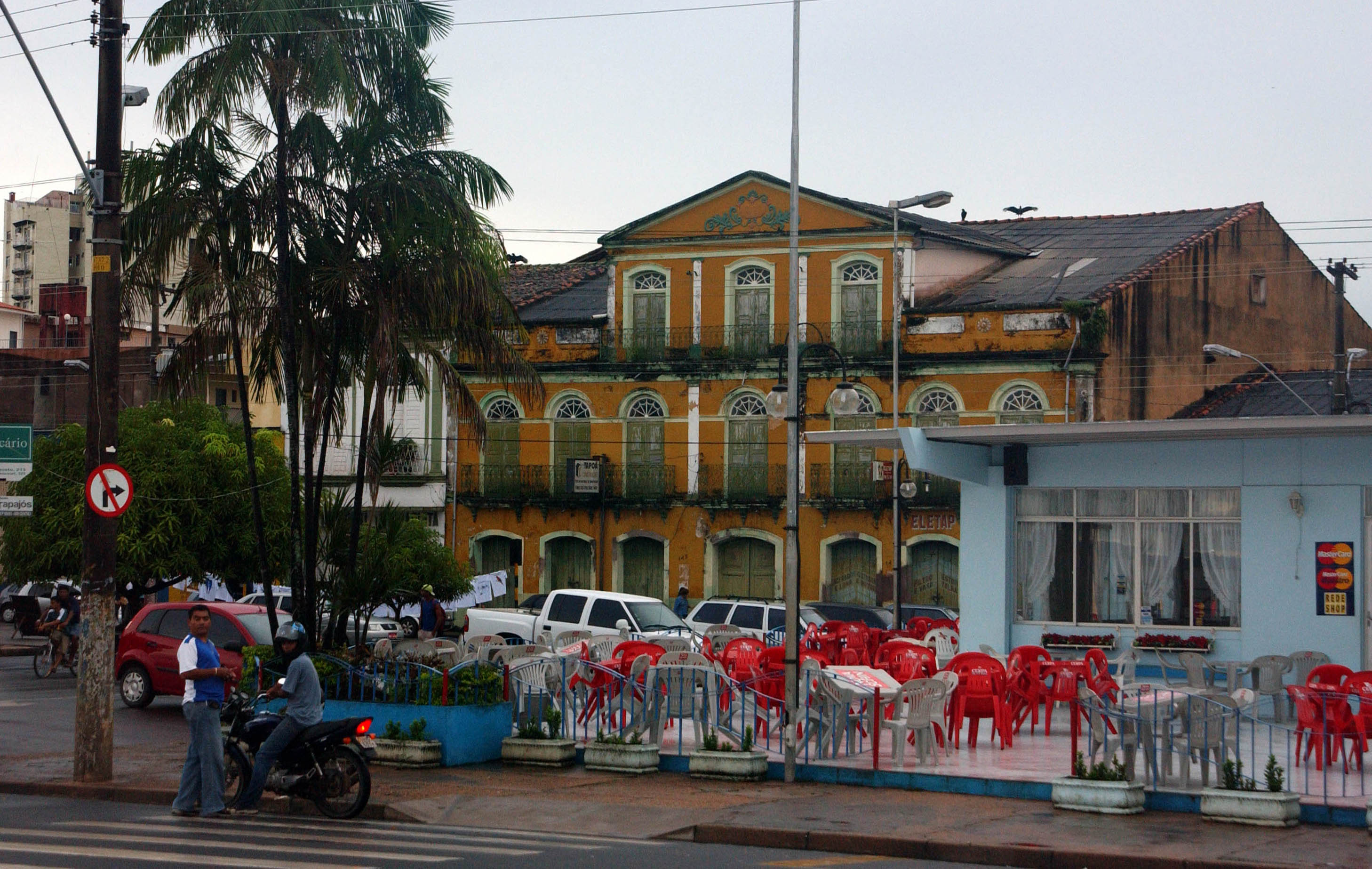 SANTAREM IS A TOWN MIDWAY BETWEEN THE ATLANTIC OCEAN AND MANAUS. LOCATED AT THE JUNCTION OF THE AMAZON AND TAPAJOS RIVERS. THIS PICTURES SHOW SOME OF THE OLD BUILDINGS ON FISHERMAN'S SQUARE